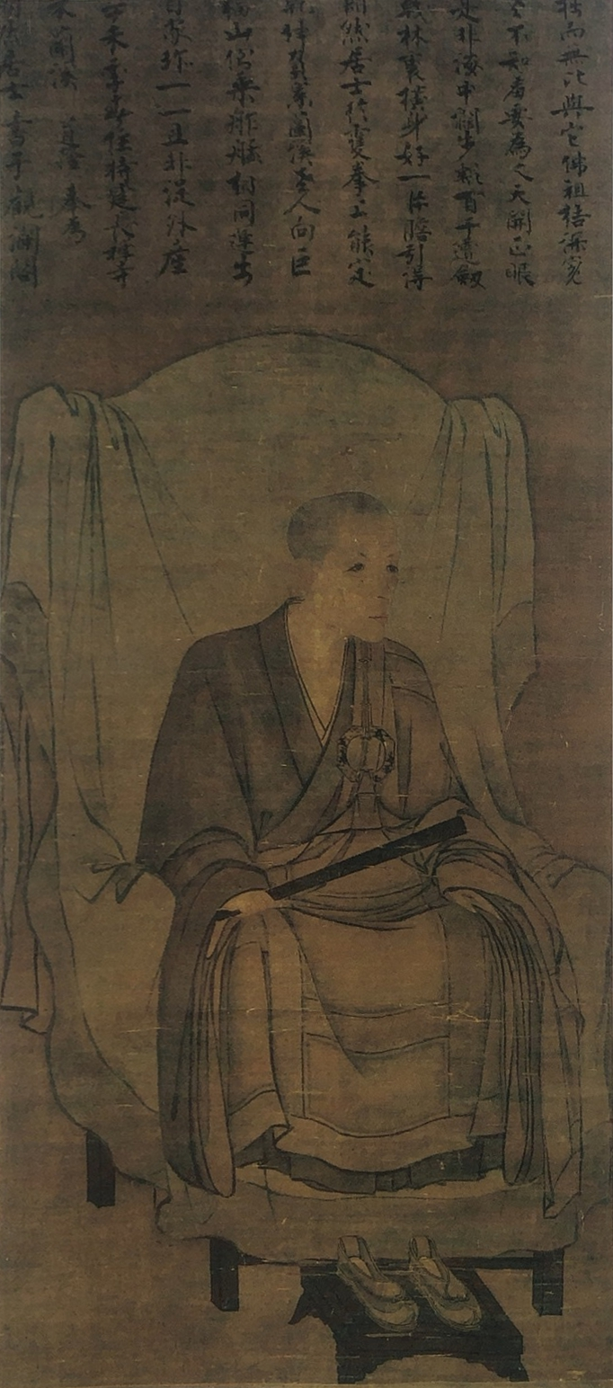 Portrait of Lanxi Daolong (Rankei Dōryū) (絹本淡彩蘭溪道隆像, kenpon tansai rankei dōryūzō). Hanging scroll, 104.8 cm x 46.4 cm. Light color on silk. Kamakura period, 1271. Located in the Kamakura Museum of National Treasures.